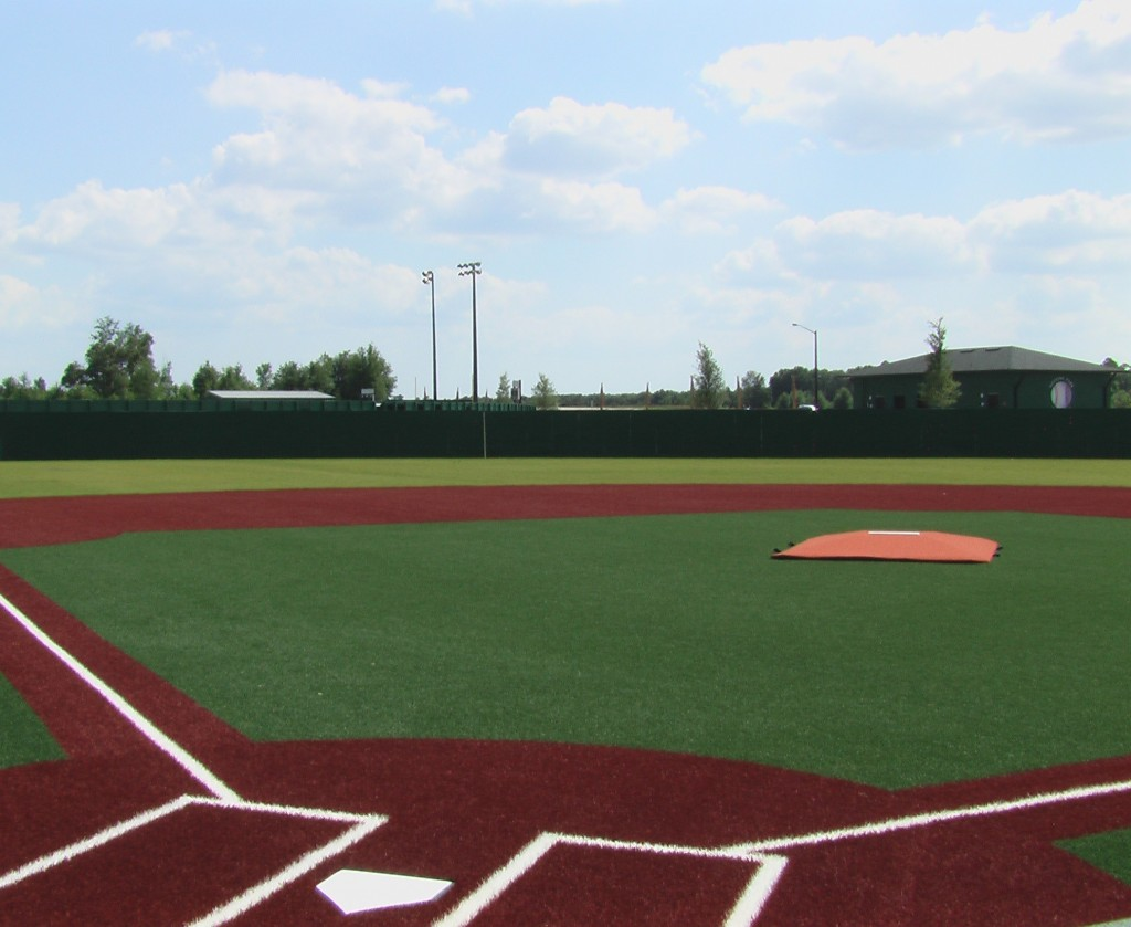 Nations Park, view from behind home plate